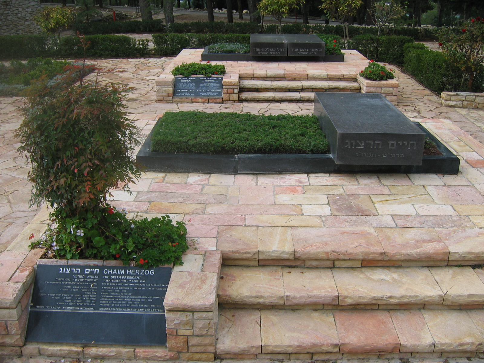 The grave of Chaim Herzog, president of Israel